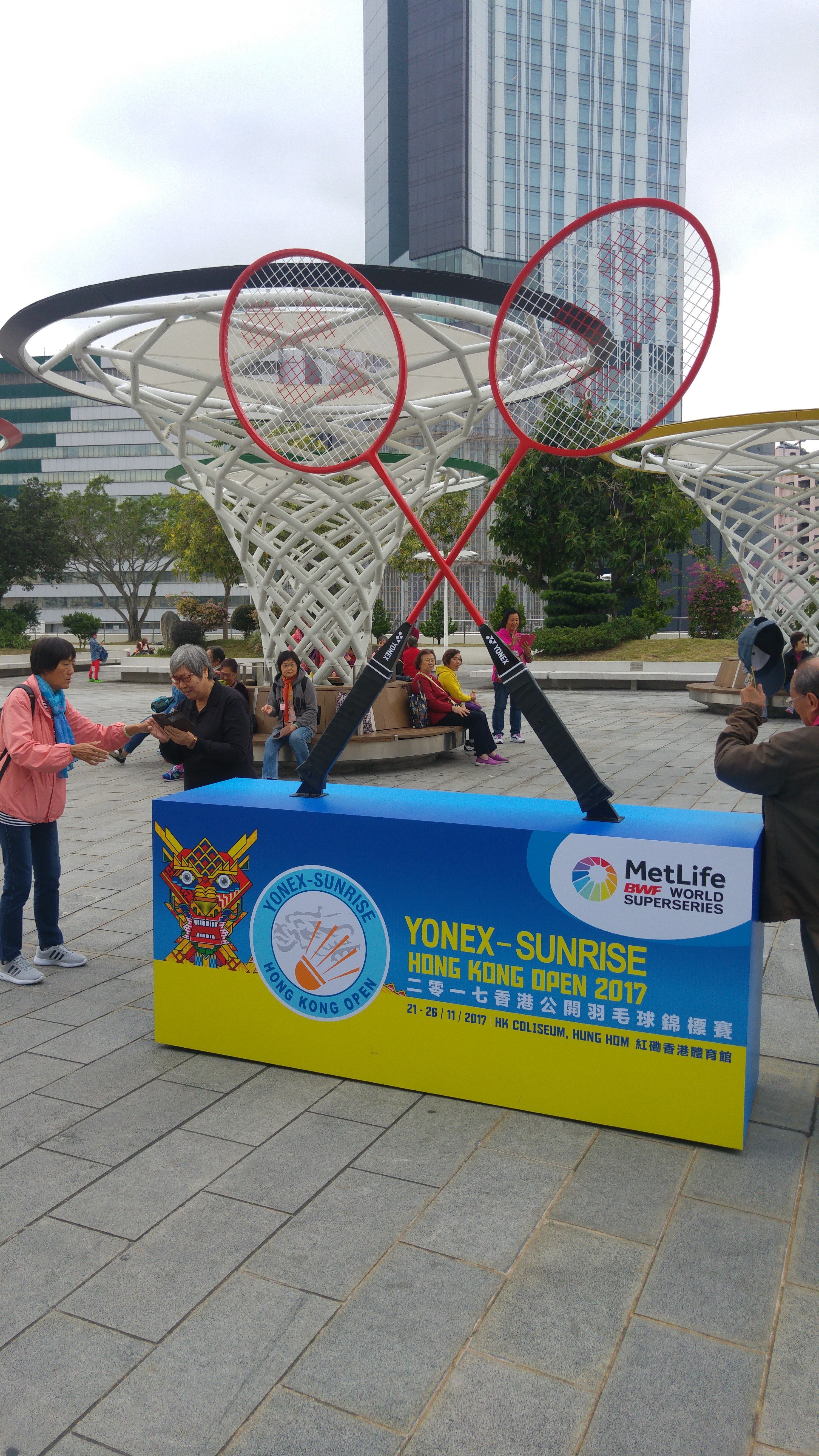 The Venue of Hong Kong Open Badminton Championships 2017 - Hong Kong Coliseum